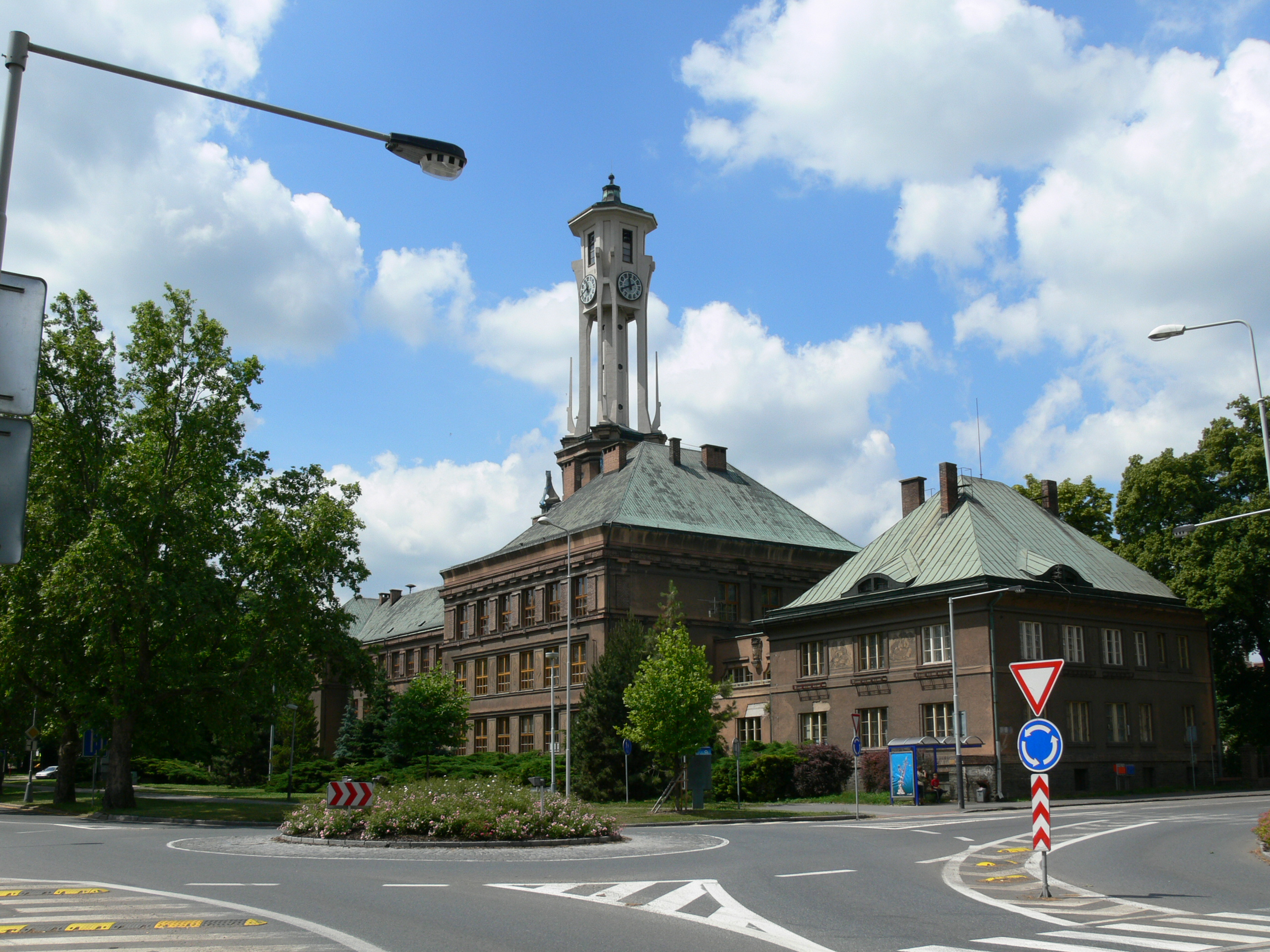 Vilém Kvasnička a Jan Mayer: The grammar school in Kolín, CZ. built in: 1923–1925